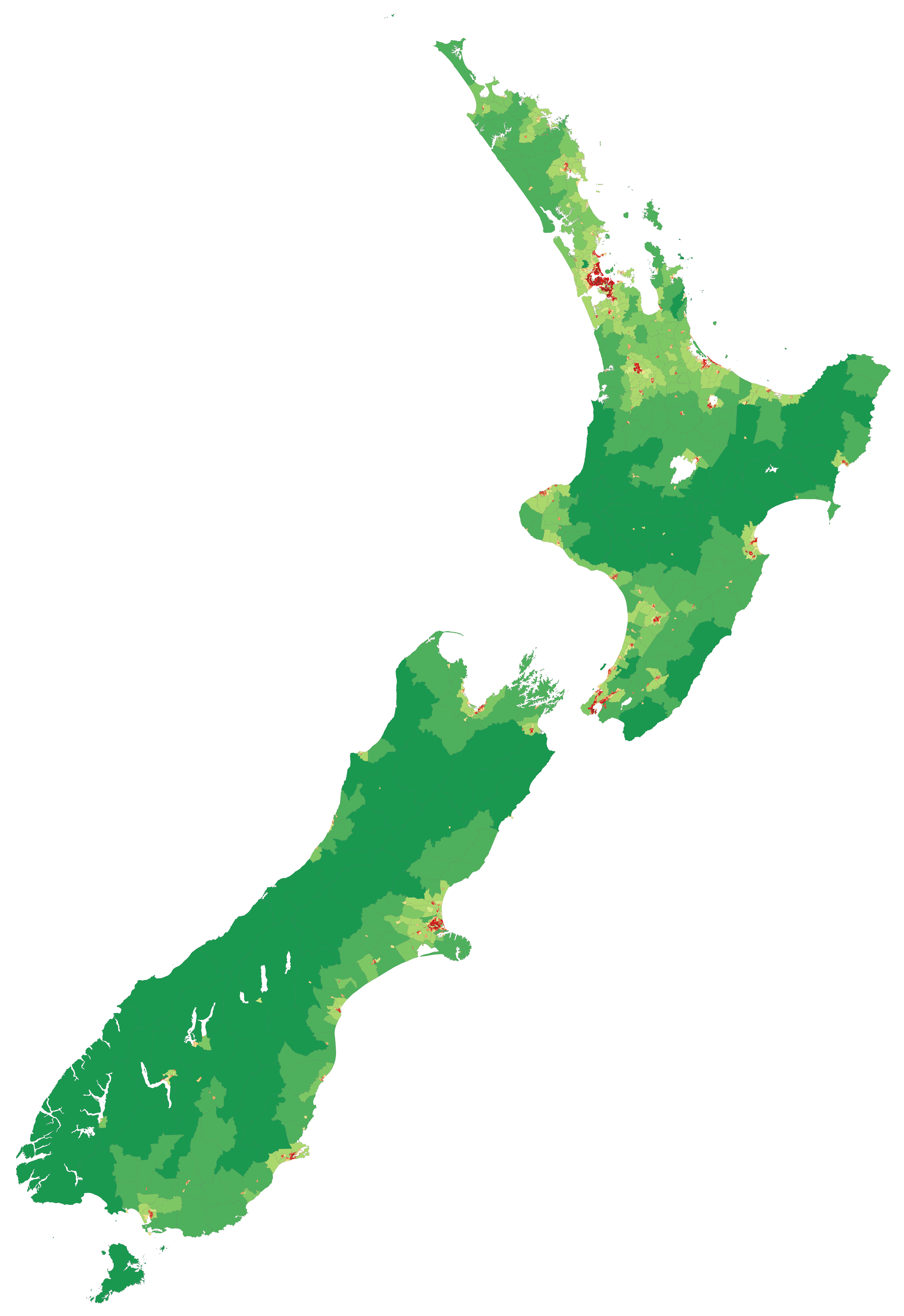 Map showing population density of New Zealand (by Statistics NZ Area Unit) as of the 2006 census